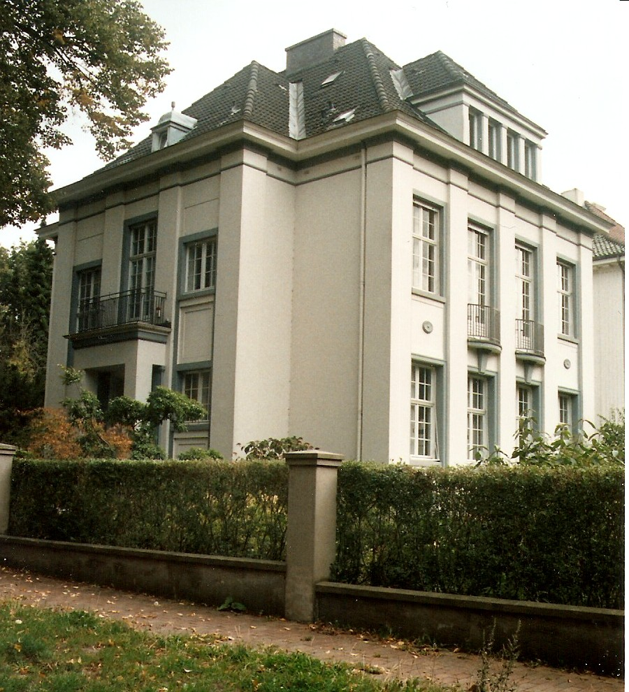 residence of Carl van Morgen in Lübeck